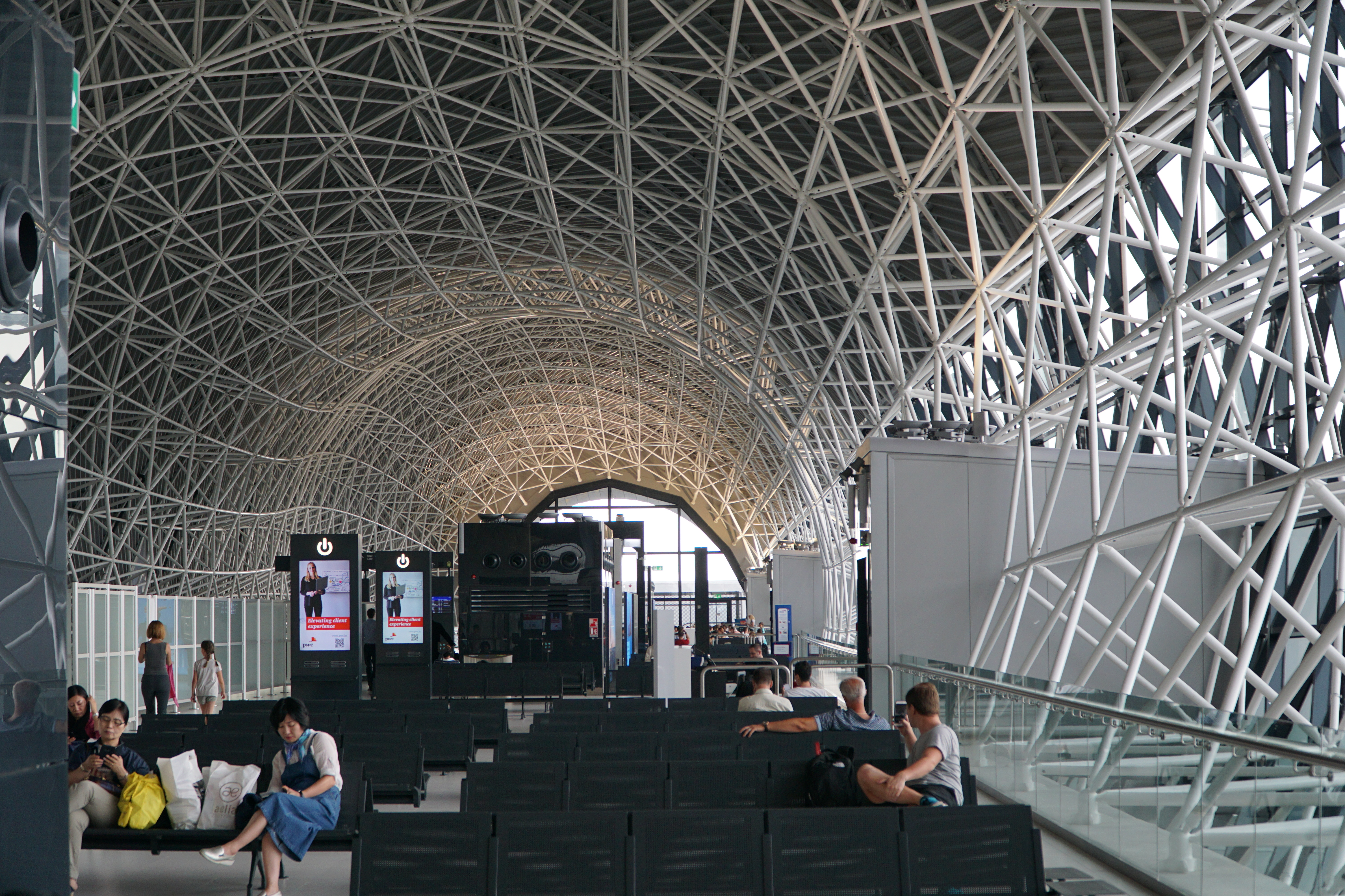 New airport terminal in Zagreb, Croatia, in June 2017.